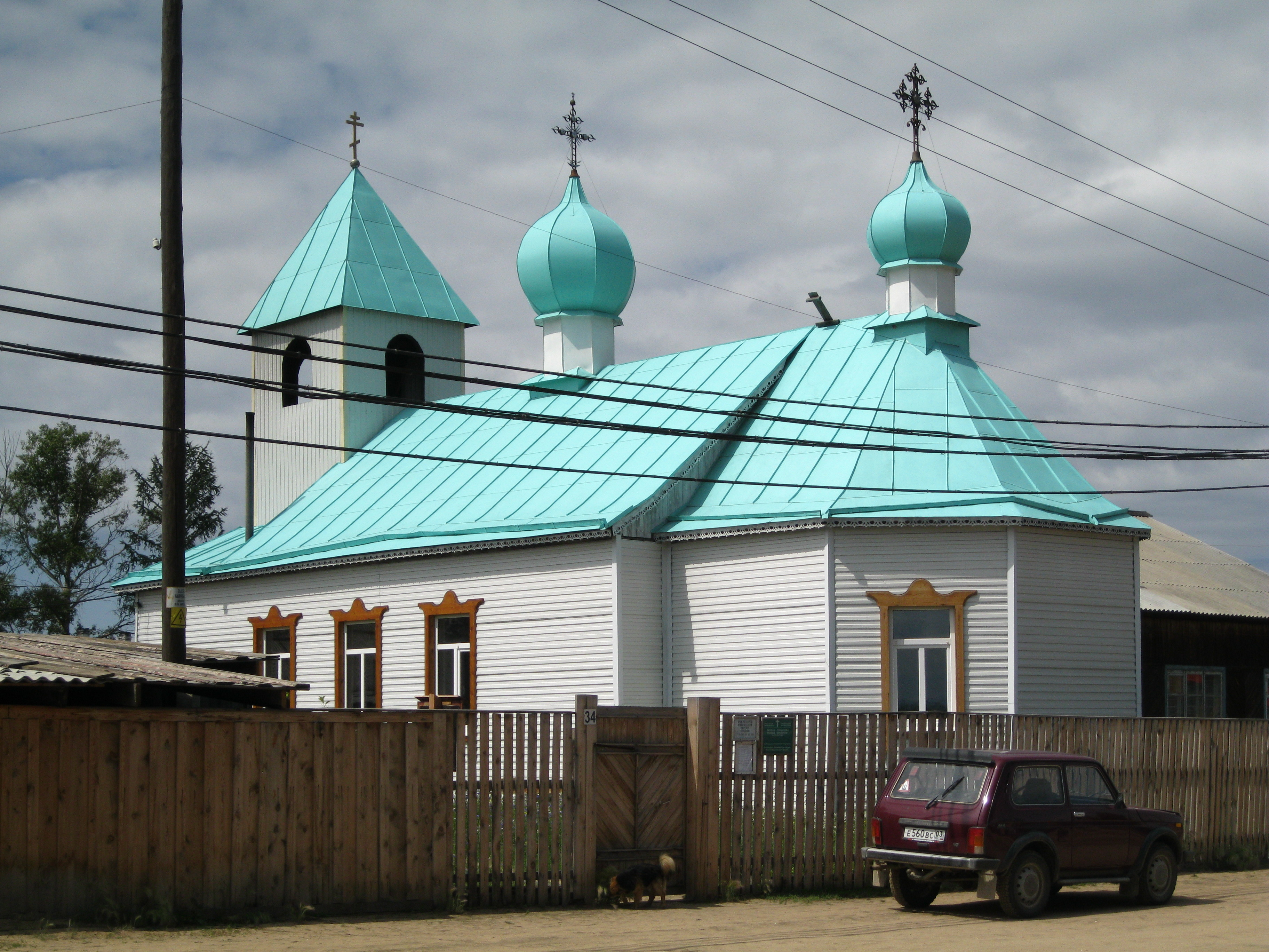 Nativity of John the Baptist church in Ust-Barguzin, Buryatia, Russia